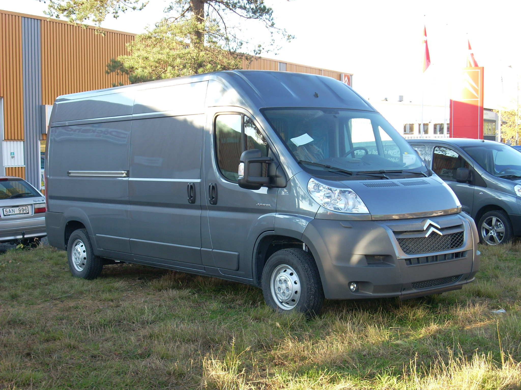 A new Citroën Jumper photographed in Jönköping.